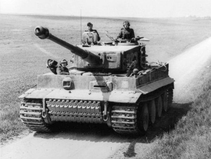 Title: Nordfrankreich, Panzer VI (Tiger I) Extra information: Nordfrankreich.- Panzer VI "Tiger I" des 1. SS-Pz. Korps "Leibstandarte Adolf Hitler" (Turmnummer 323); PK 698 Factual corrections and alternative descriptions are encouraged separately from the original description. Additionally errors can be reported at this page to inform the Bundesarchiv. Original historic description